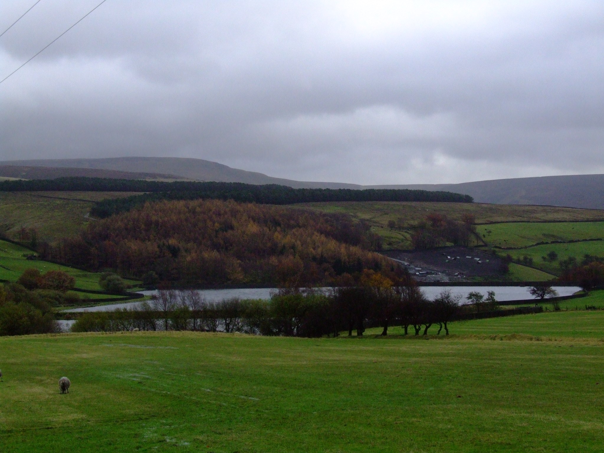 Swineshaw Reservoir (Derbyshire) and Upper Swineshaw Reservoir (Derbyshire) aboveOld Glossop. on the Swineshaw Clough that leads into the Shelf Brook.. With Bleaklow behind. - OpenStreetMap(Info)